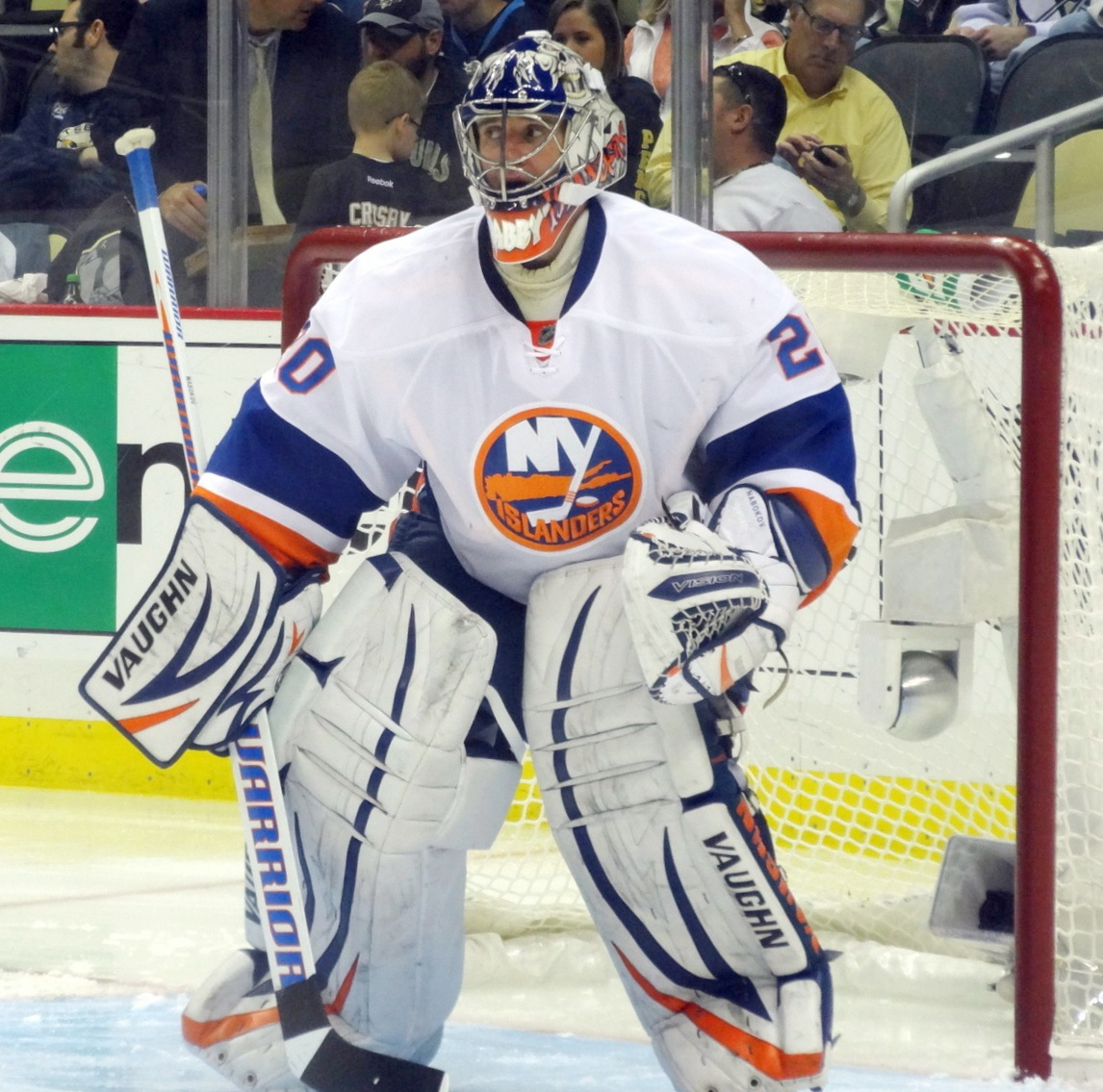 New York Islanders starting goaltender Evgeni Nabakov during round one, game five of the 2013 Stanley Cup playoffs against the Pittsburgh Penguins, May 9, 2013 at Consol Energy Center. Nabakov surrendered four goals before being pulled from the game in the third period of the Islanders' 4-0 loss.